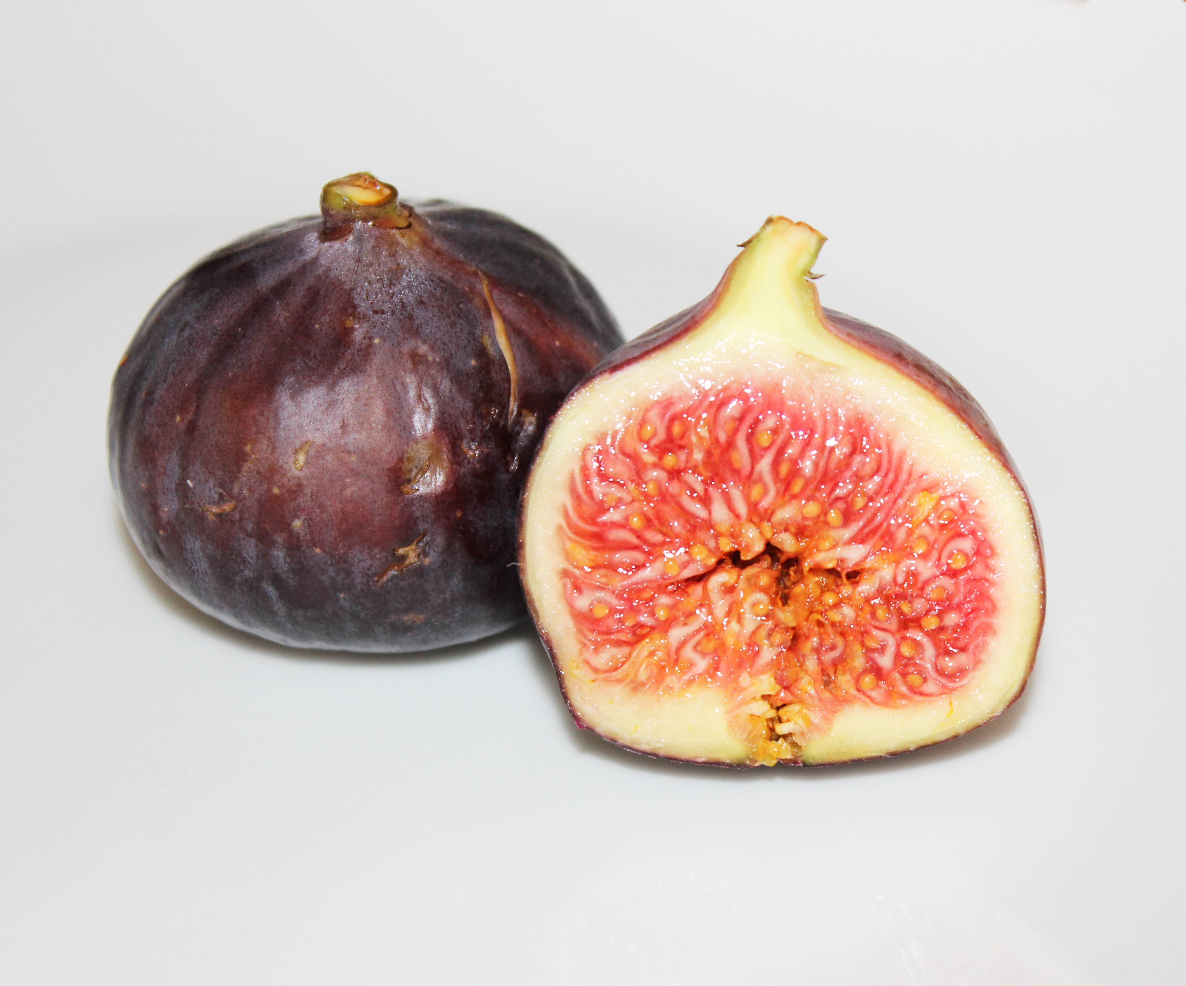 Figs.